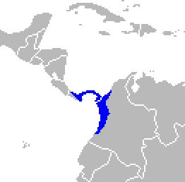 Aotus zonalis (Panamanian night monkey) range map IUCN: Aotus zonalis Goldman, 1914 (Data Deficient)